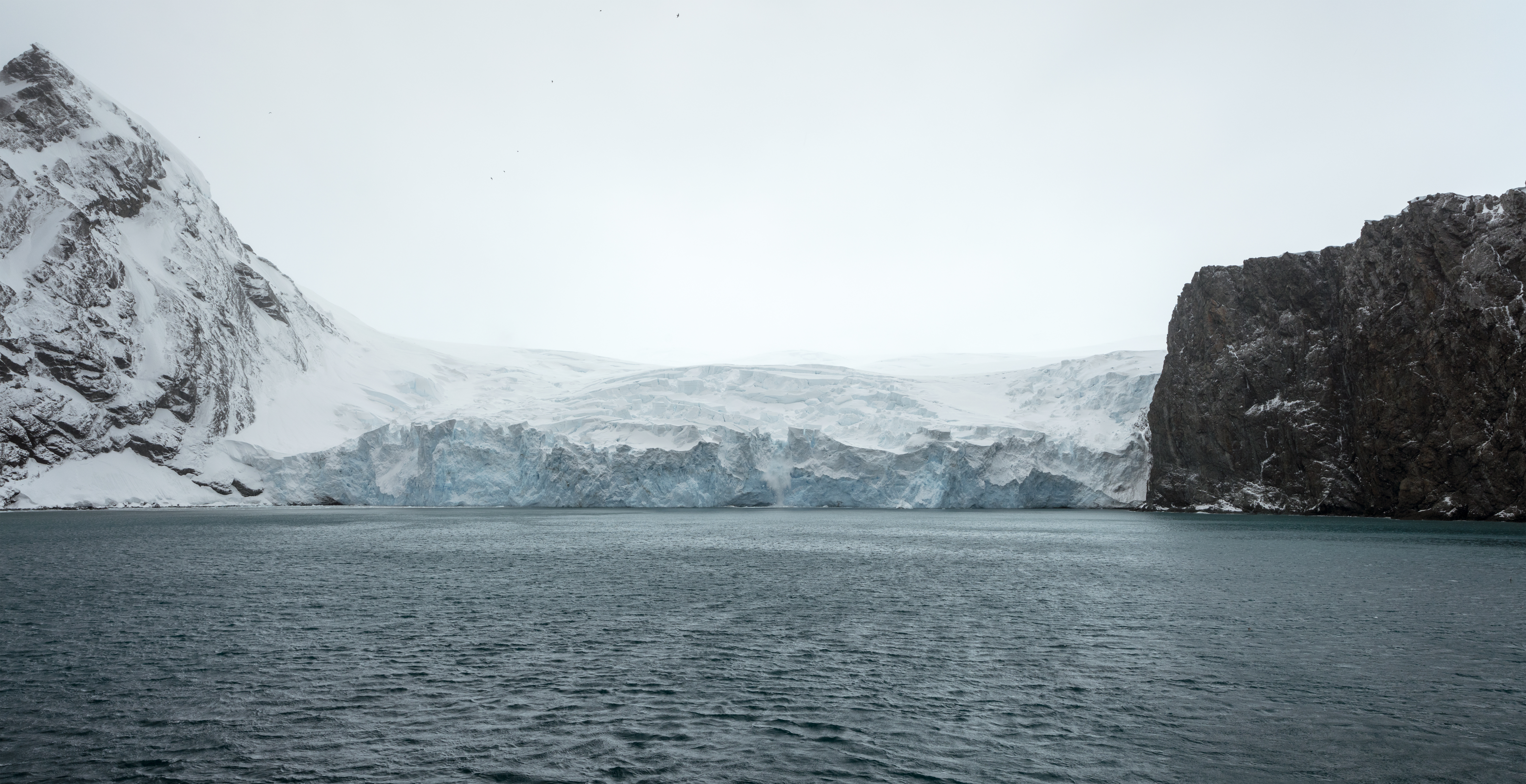 Furness Glacier, Point Wild, Elephant Island, South Shetland Islands